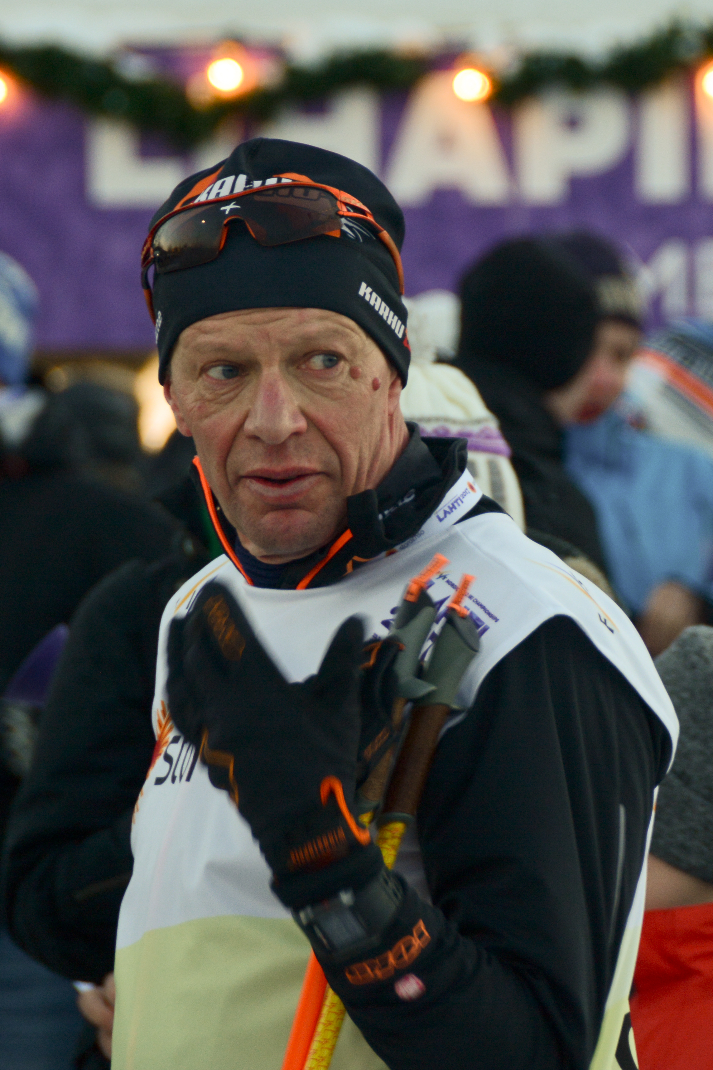 Former Finnish professional cross-country skier Harri Kirvesniemi during FIS Nordic World Ski Championships 2017 in Lahti, Finland